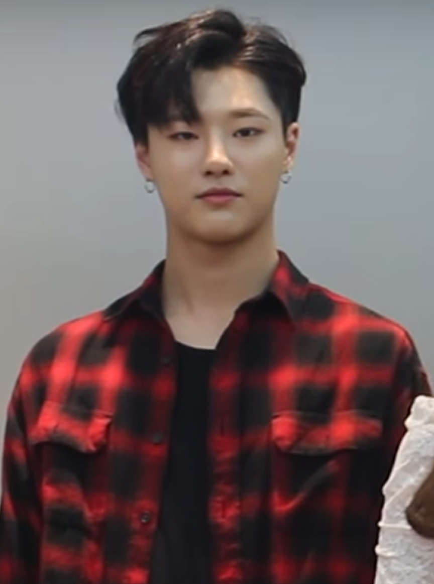 Luizy at Centro Cultural Hallyu in São Paulo, June 27, 2016.